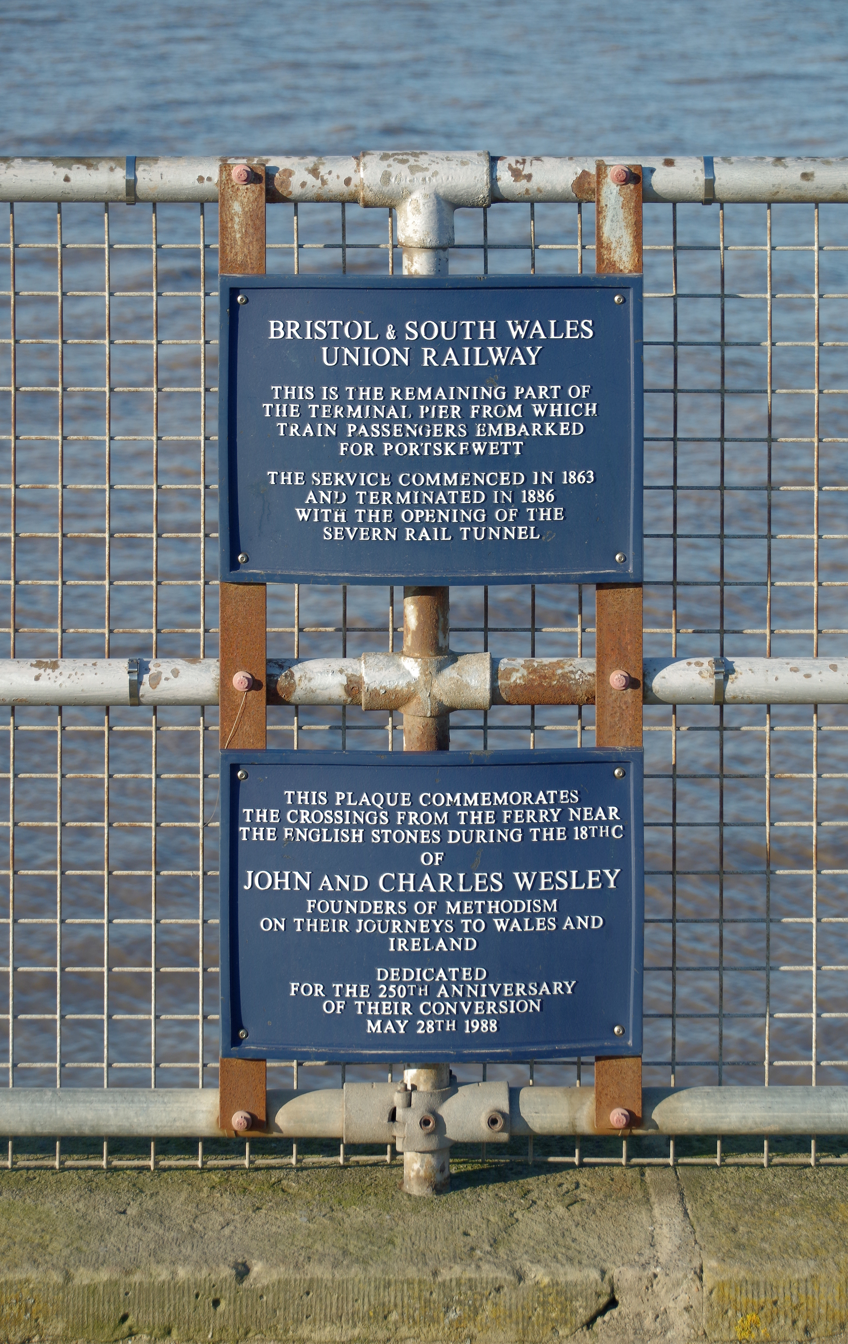 Plaques on the wall of the remaining part of the Bristol & South Wales Union Railway pier at New Passage (or Severn Beach). BRISTOL & SOUTH WALES UNION RAILWAY This is the remaining part of the terminal pier from which train passengers embarked for Portskewett. The service commenced in 1863 and terminated in 1886 with the opening of the Severn rail tunnel. This plaque commemorates the crossing from the ferry near the English stones during the 18th century of JOHN and CHARLES WESLEY Founders of Methodism on their journeys to Wales and Ireland. Dedicated for the 250th anniversary of their conversion, May 28th 1988.